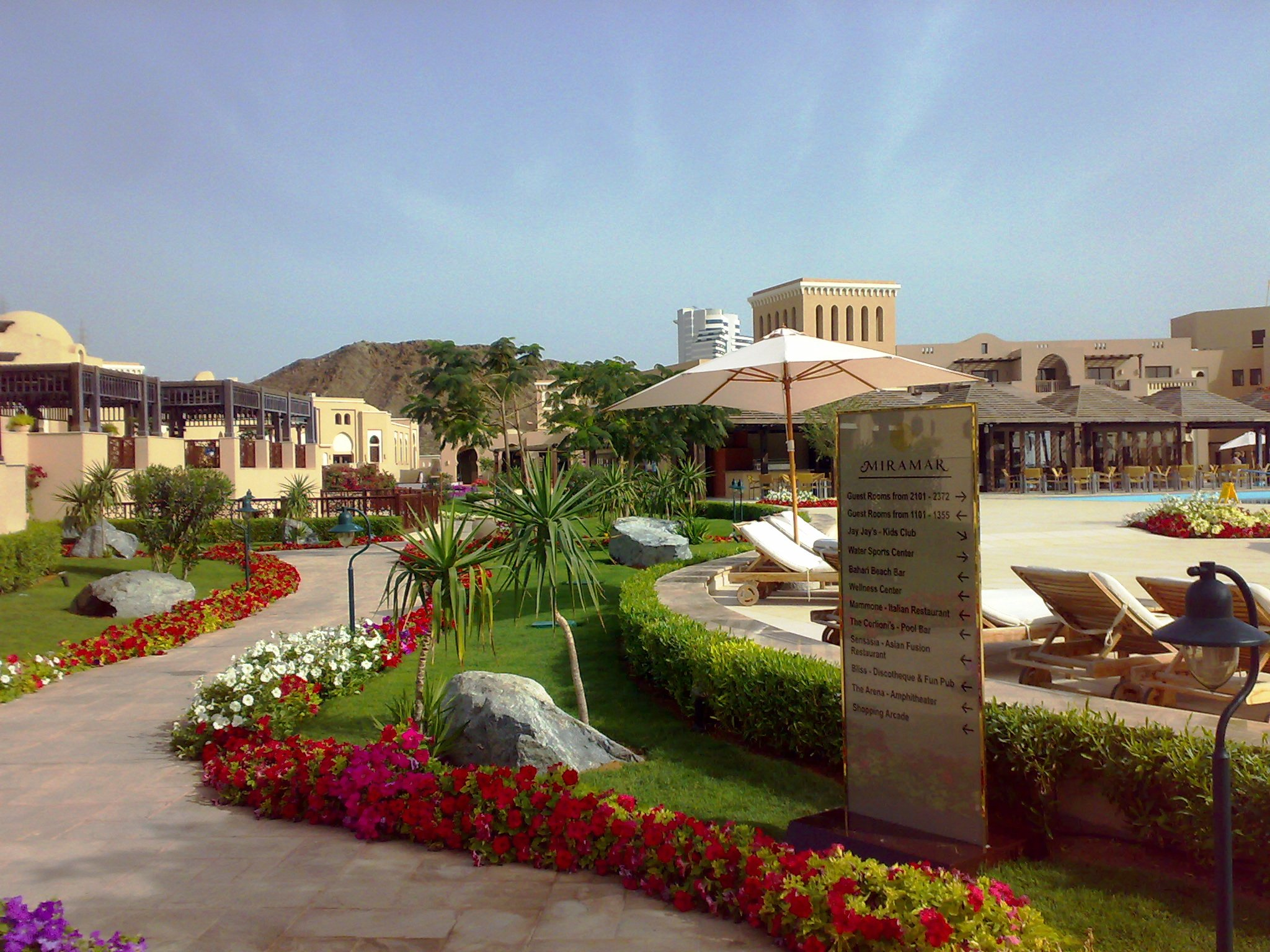 Image from the Area between Fujeirah and Dibba, eastern United Arab Emirates